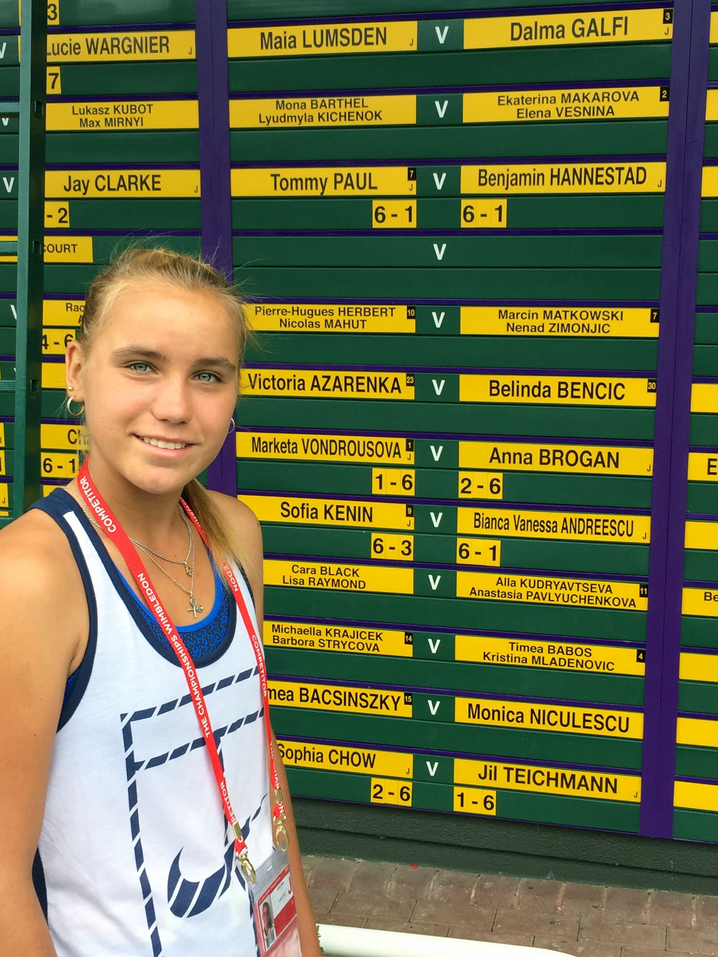 Sofia Kenin Wimbledon 2015 - July 06, 2015